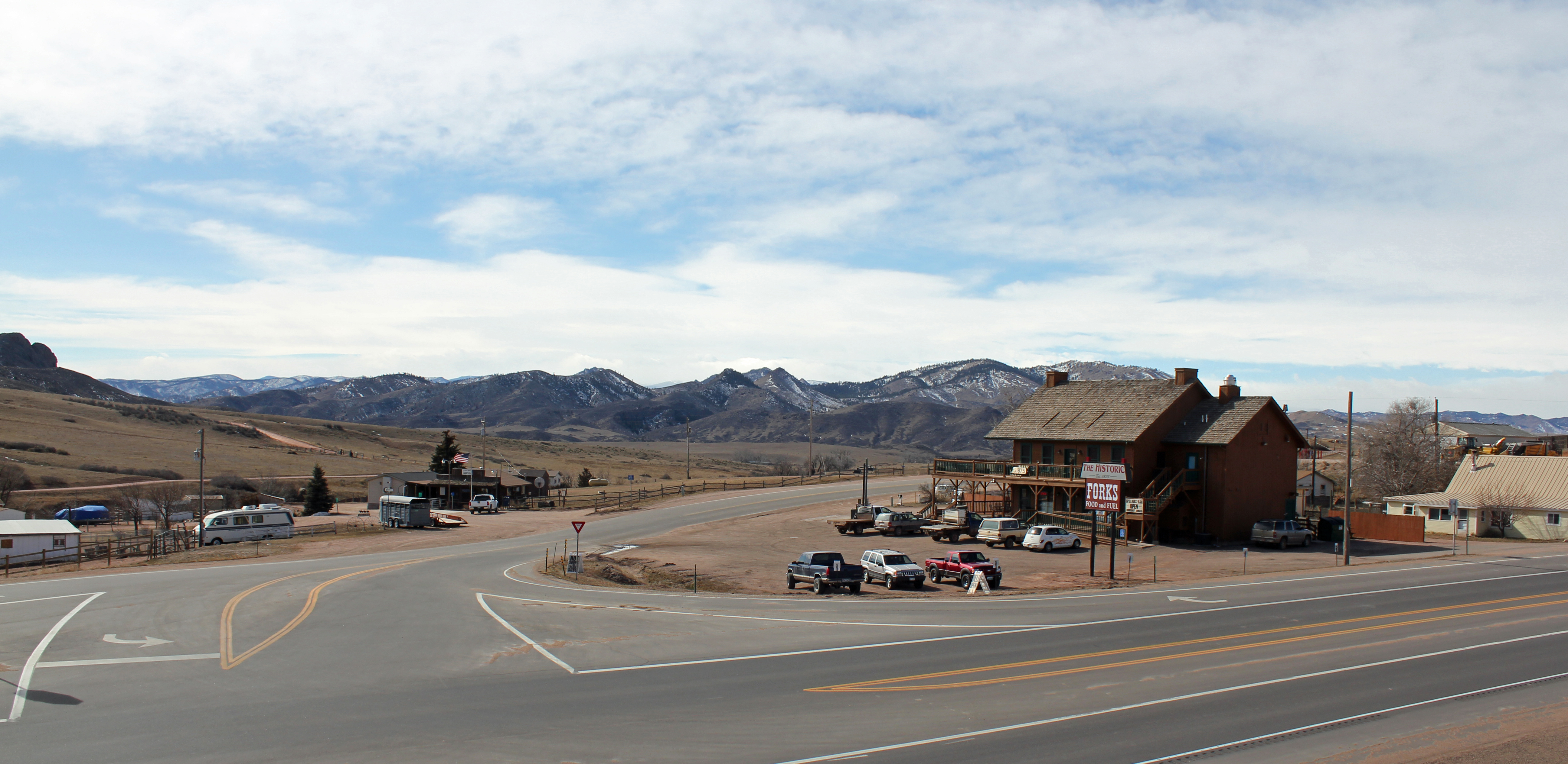 Livermore, Colorado, located in Larimer County. The highway at the bottom of the photo is U.S. Highway 287. The other road, the one heading to the mountains, is Red Feather Lakes Road.